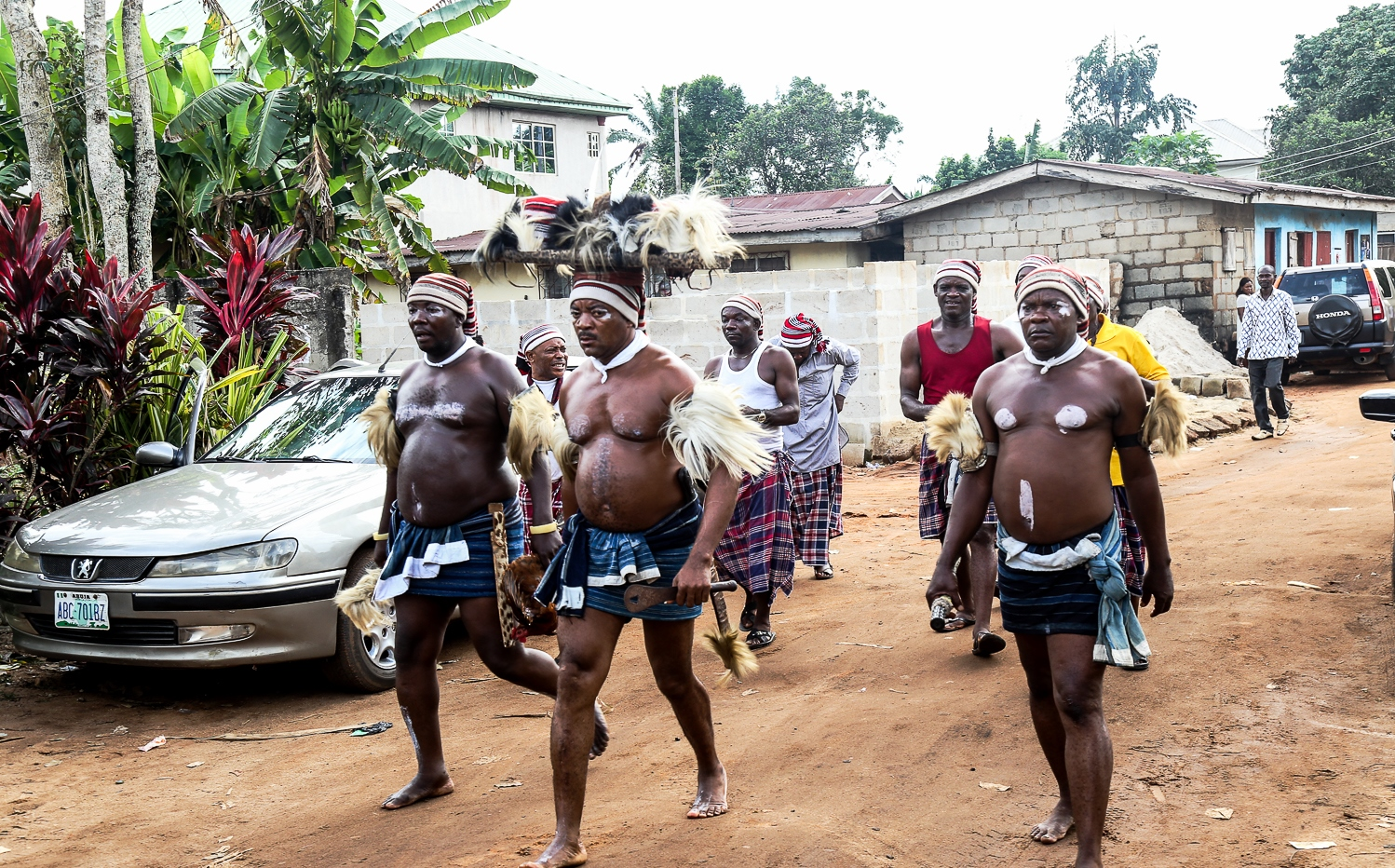 Local dancers reenact the traditional war attire in this outfit This is an image of Cultural Fashion or Adornment from Nigeria